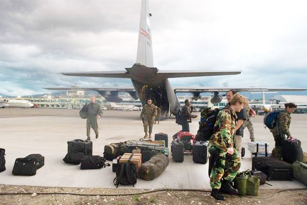 Airmen from the Ohio Air National Guard's 179th Airlift Wing unload supplies from their C-130 Hercules Jan. 13, 2010, in Port-au-Prince, Haiti, following a devastating Jan. 12 earthquake. Two C-130s and five crews from the 179th AW, home-based in Mansfield, Ohio, are supporting relief efforts. (U.S. Air Force photo)